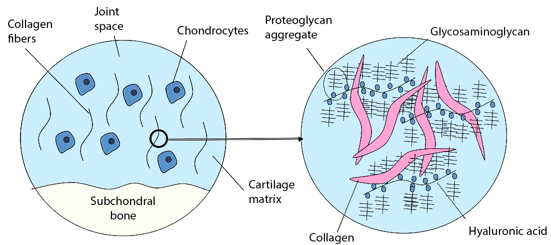 GAGs, proteoglycan, glycoproteins, cartilage matrix